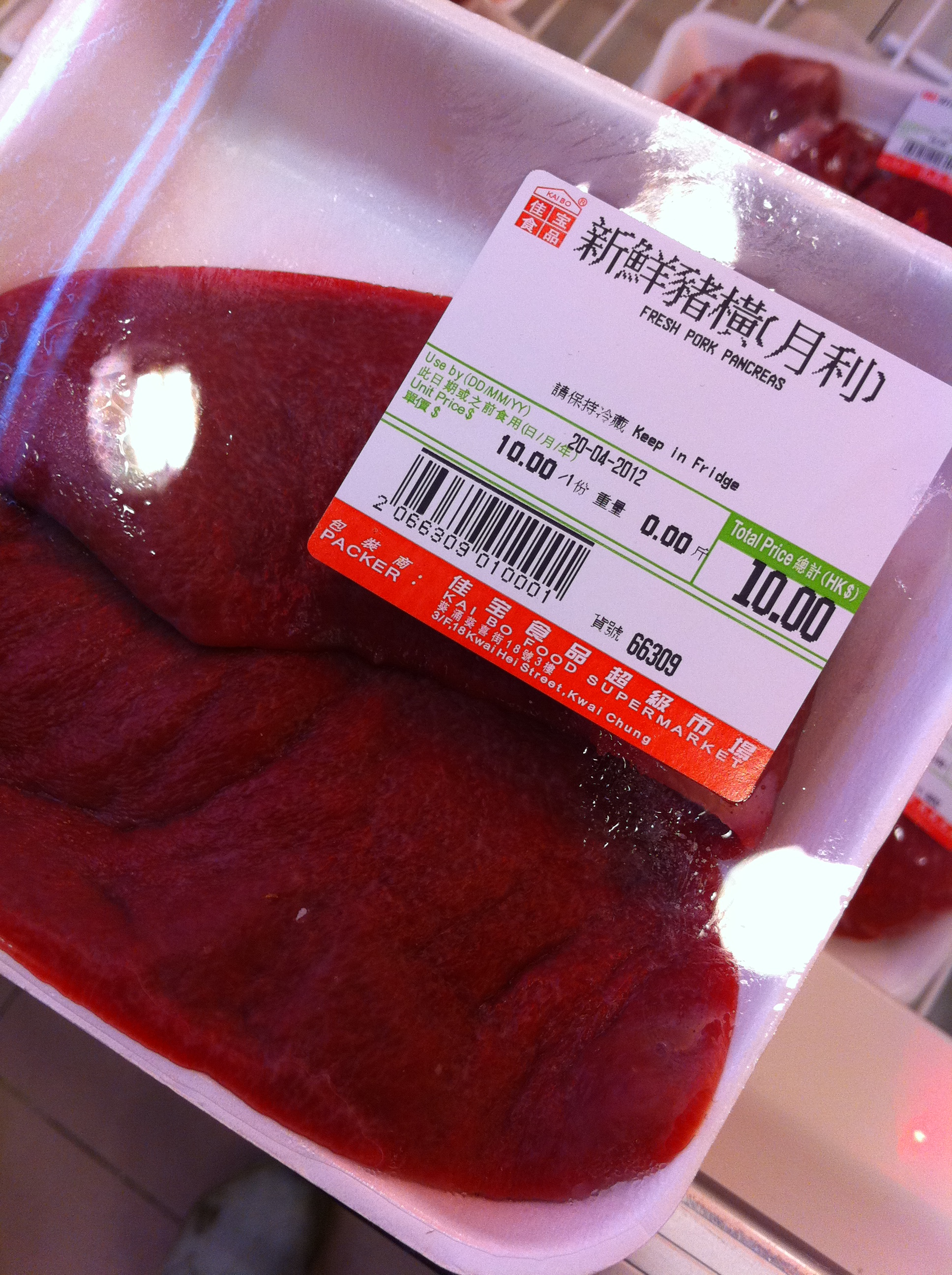 zh-yue:豬橫脷, Kai Bo Supermarket, Hong Kong